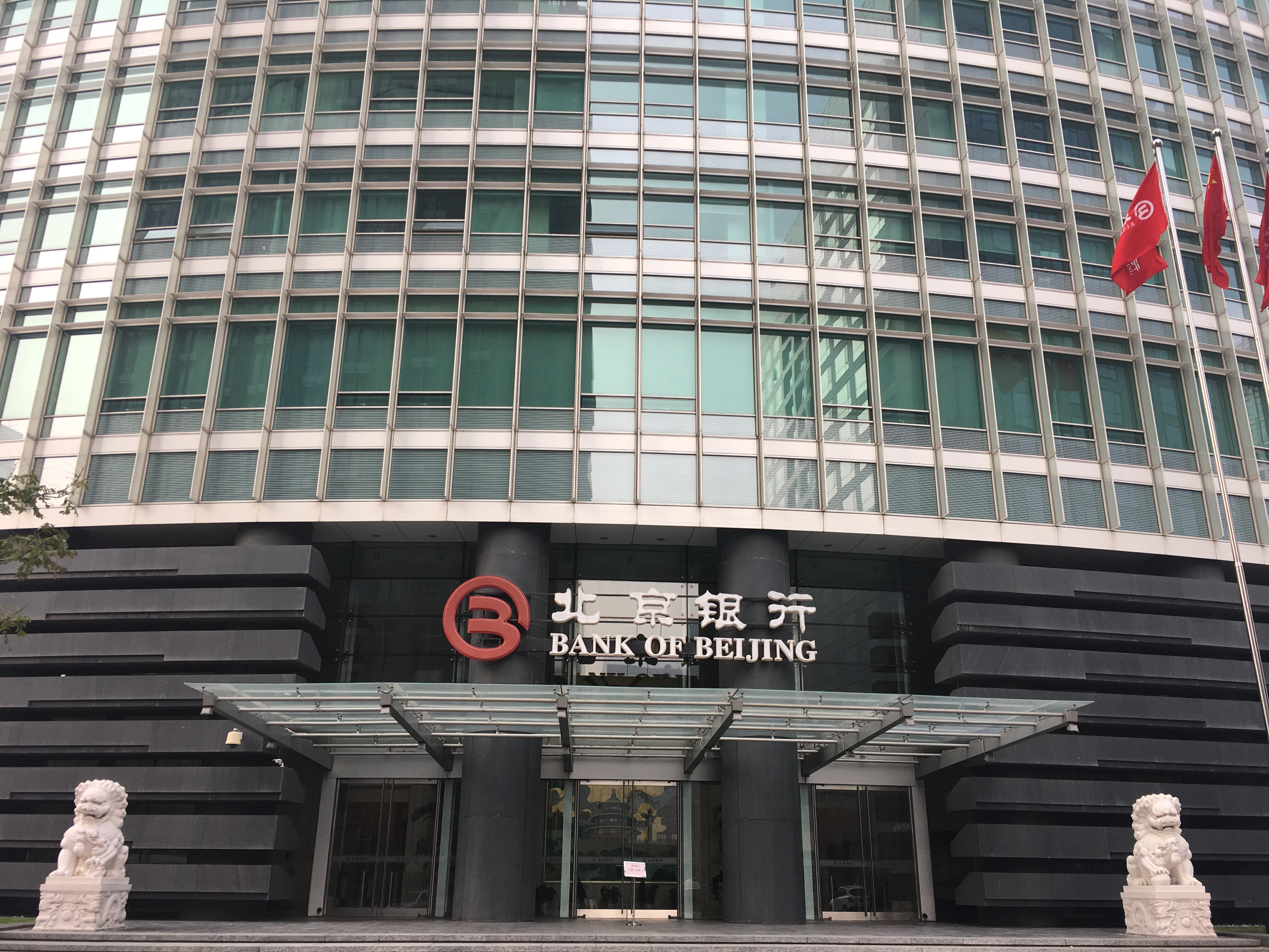 The entrance of the Bank of Beijing headquarters in Beijing.